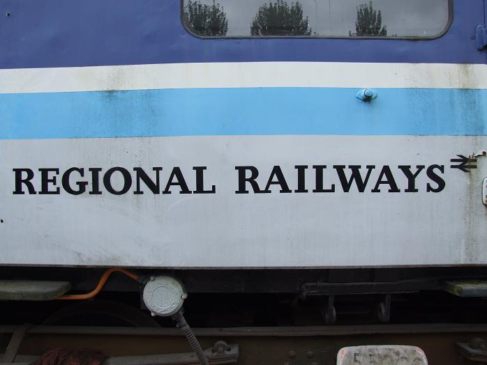 The Regional Railways branding on 122100, which is currently at the South Devon Railway.